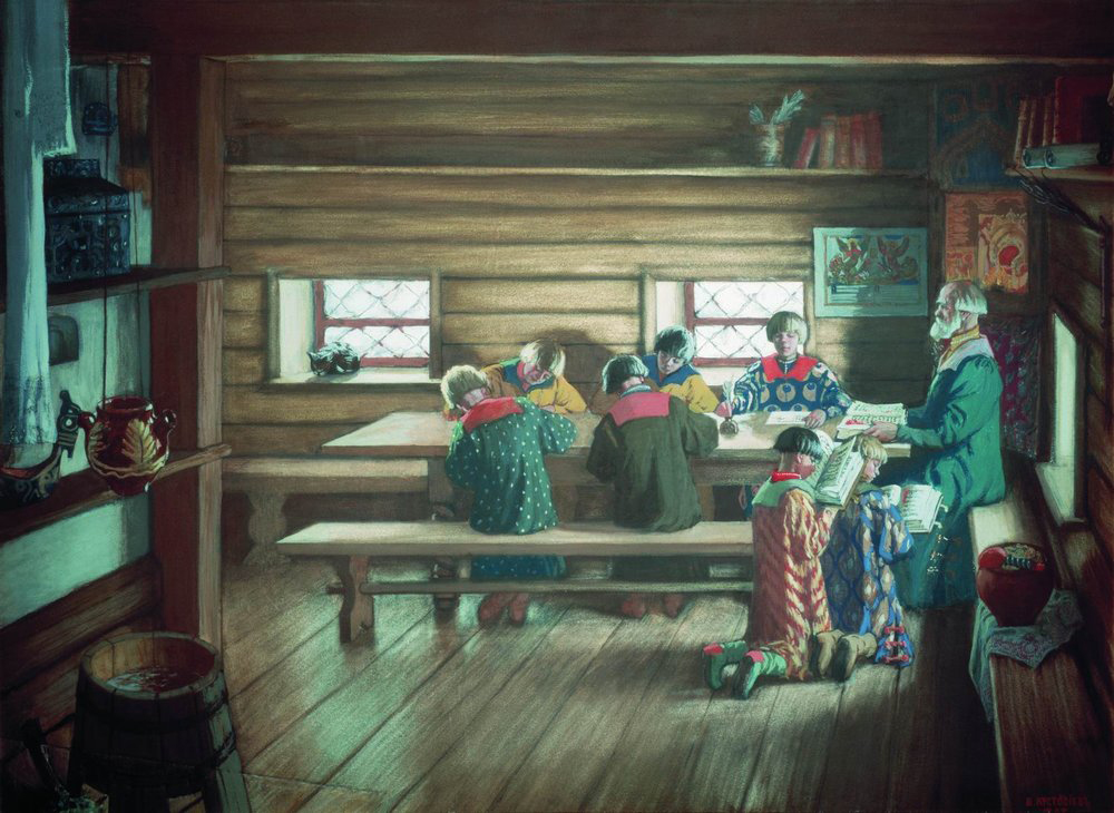 School in Moscow Russia